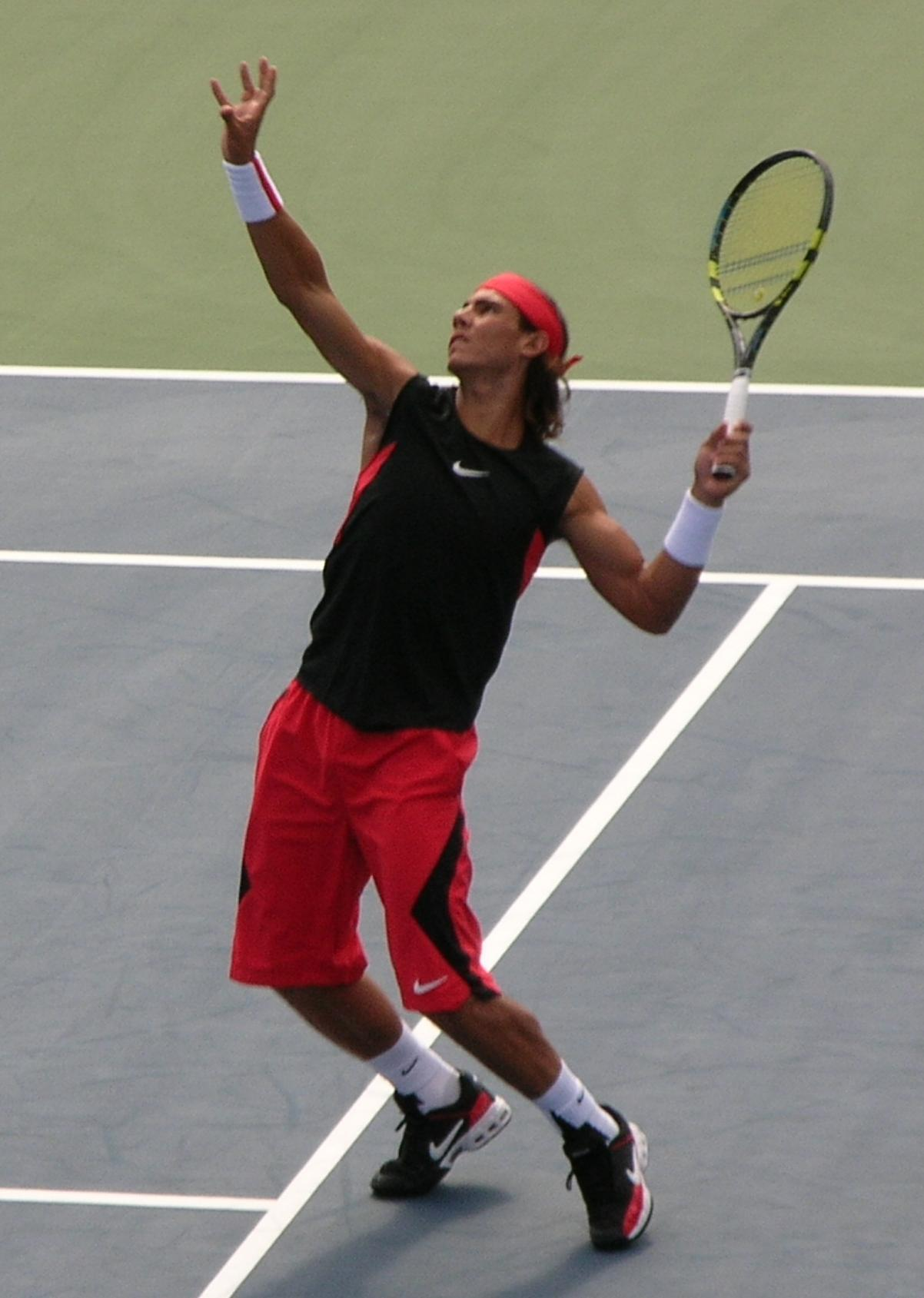 Rafael Nadal smashing a ball during the 2006 US Open.